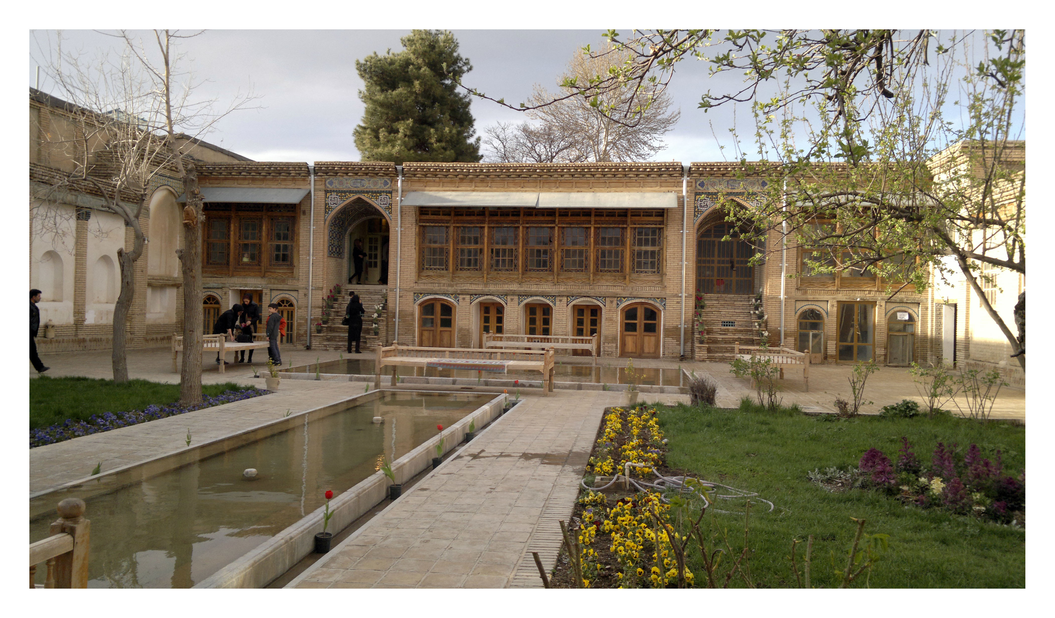 The house of Eftekhar-ol-Eslam Tabatabaei is located in Soofian district of Borujerd.